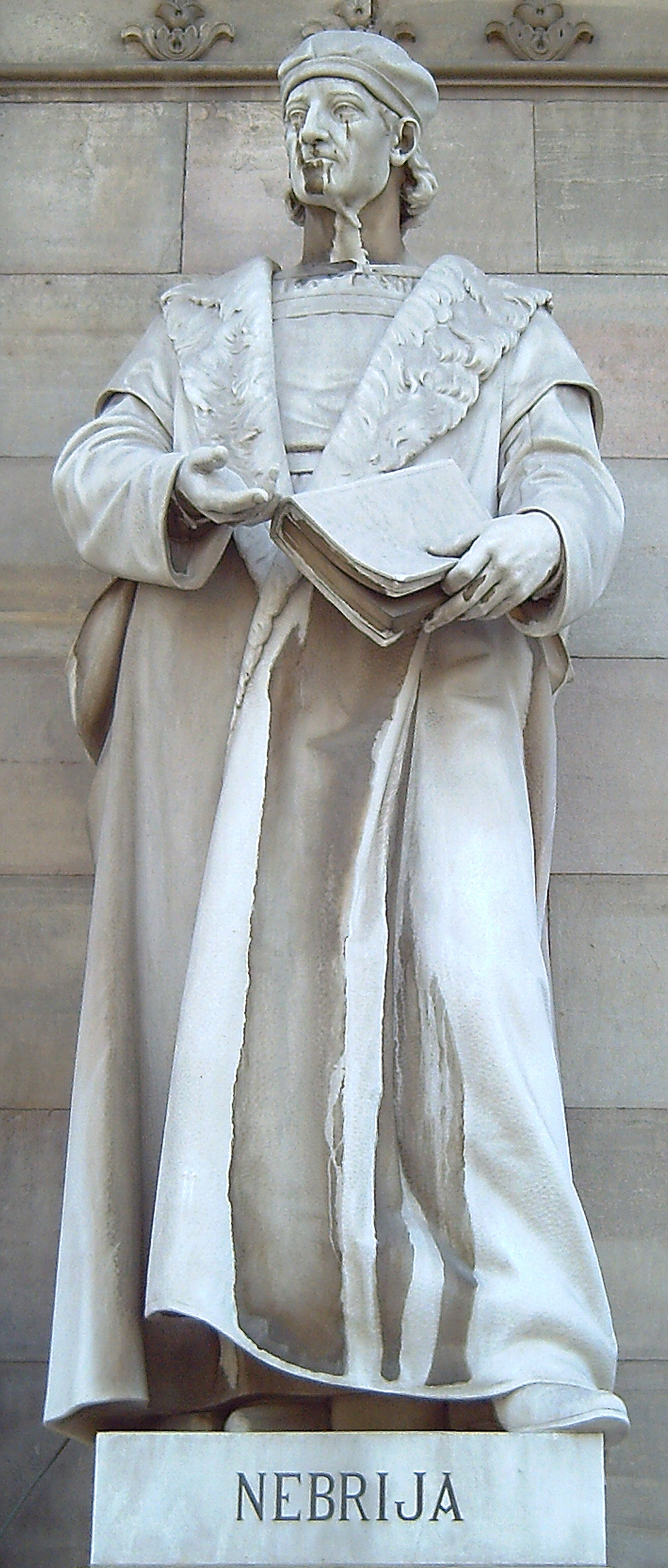 Statue of Antonio de Nebrija (c.1441–1522) at the entrance of the National Library of Spain, in Madrid. Sculpted in Italian white marble by Anselmo Nogués García (1864–?) in 1892.